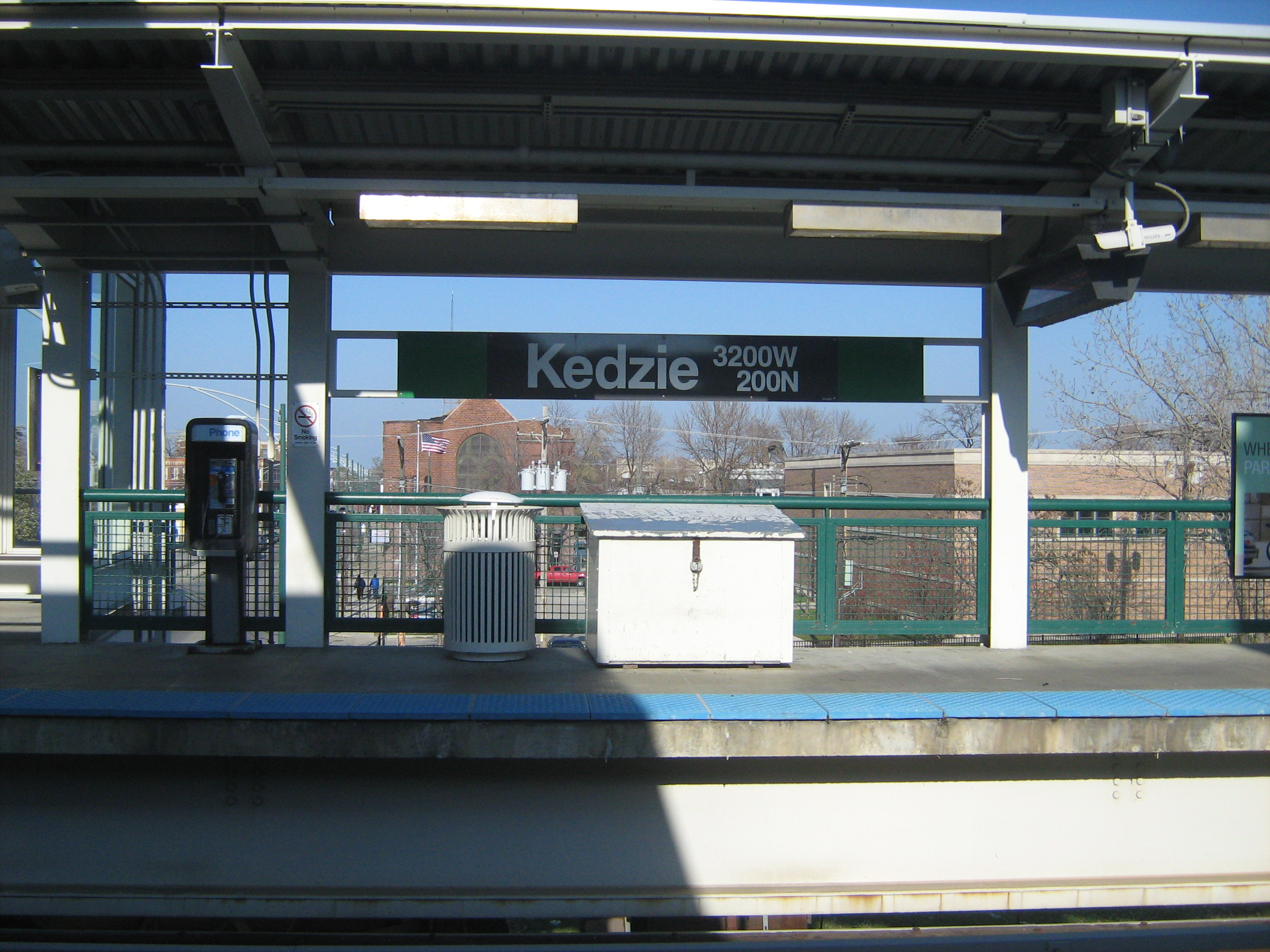 Kedzie CTA Green line Station